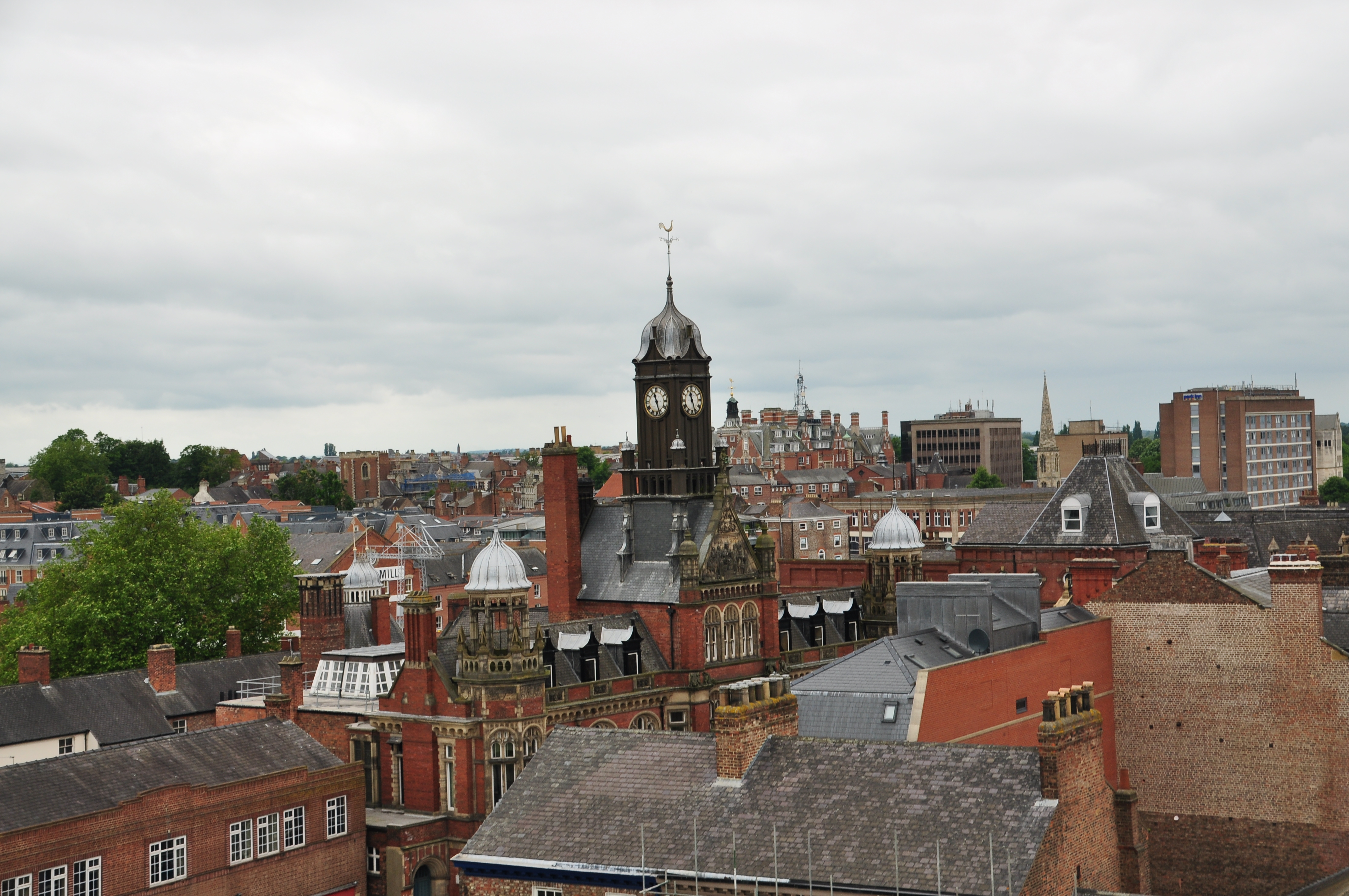 Clifford's Tower